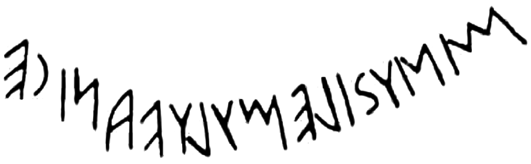 Usile dedicated me.